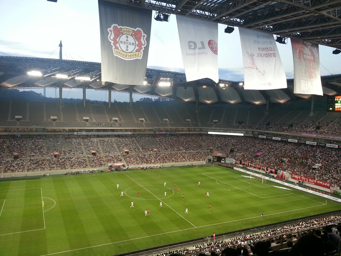 LG/Bayer 04 Leverkusen Korea Tour. vs FC Seoul, 30.july 2014